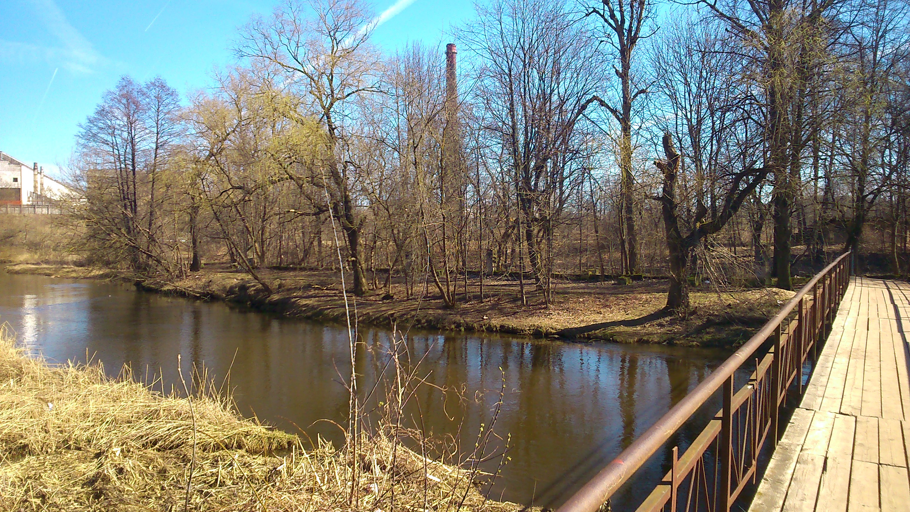 Naujoji Vilnia Park